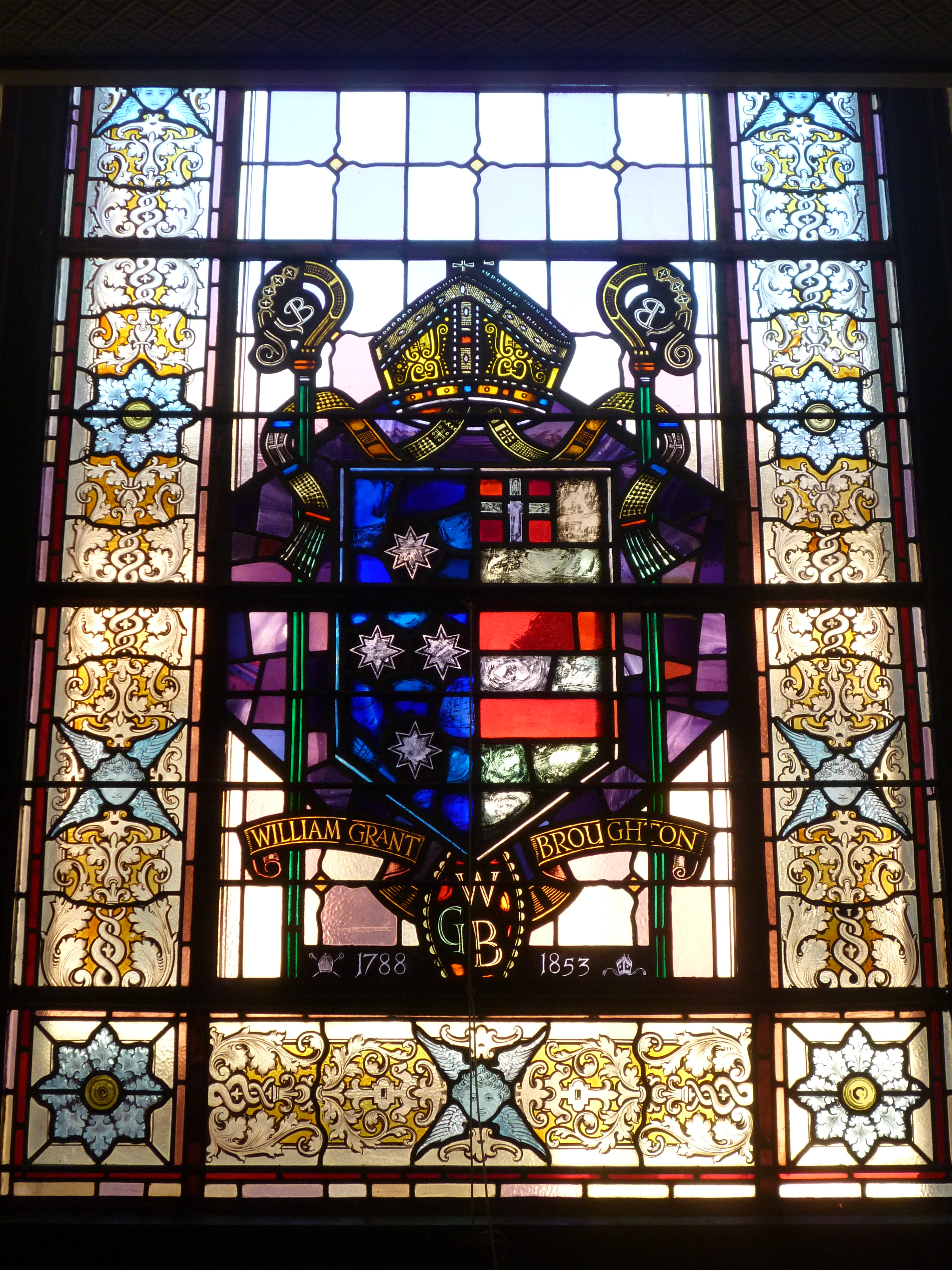 Stained glass window commemorating William Grant Broughton in St James' Church, Sydney